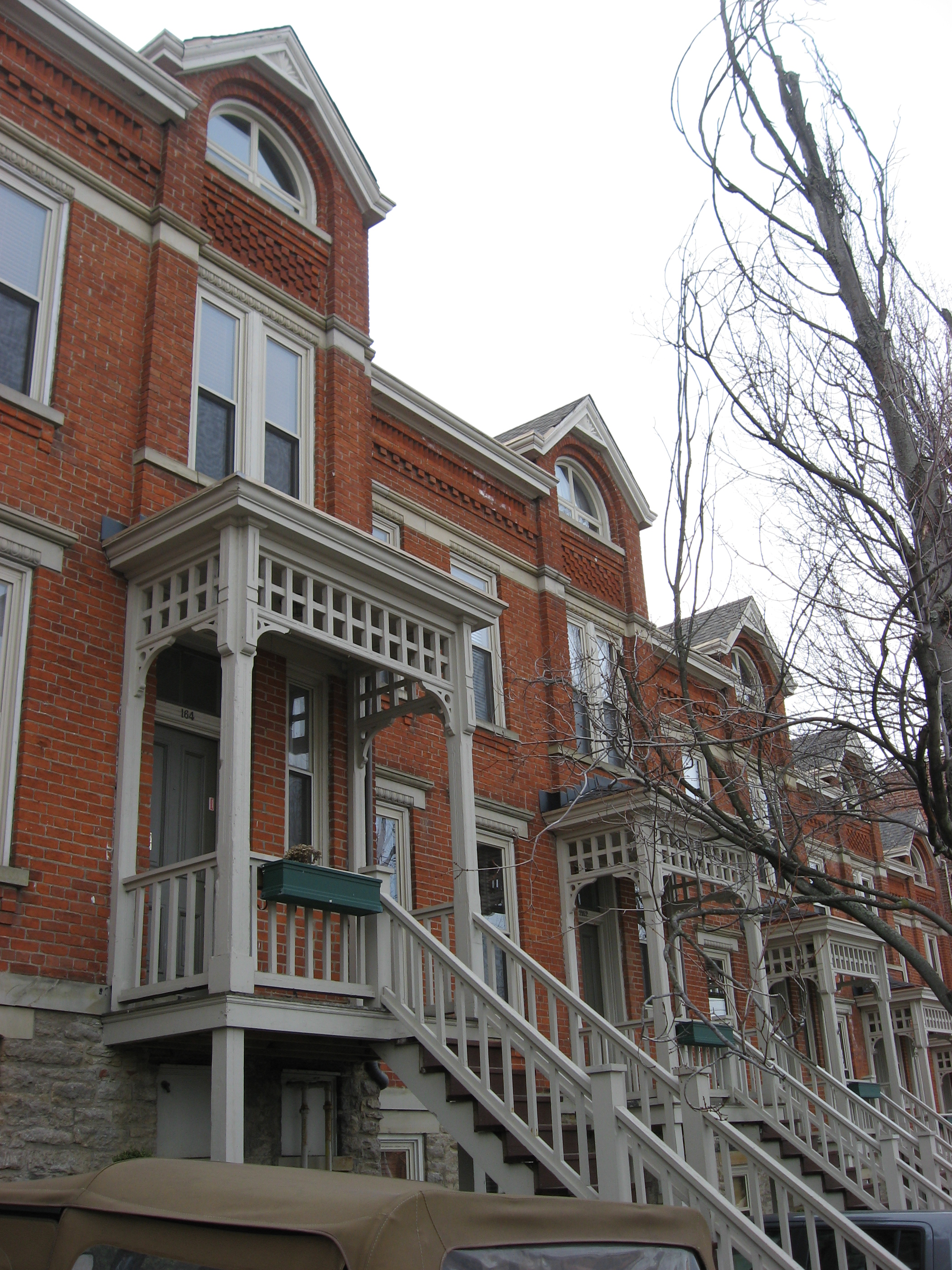 Stairs and porches on the northern end of the Gilbert Row, located at 2152-2166 Gilbert Avenue on the southern edge of the Walnut Hills neighborhood of Cincinnati, Ohio, United States. Built in 1889, it is listed on the National Register of Historic Places.